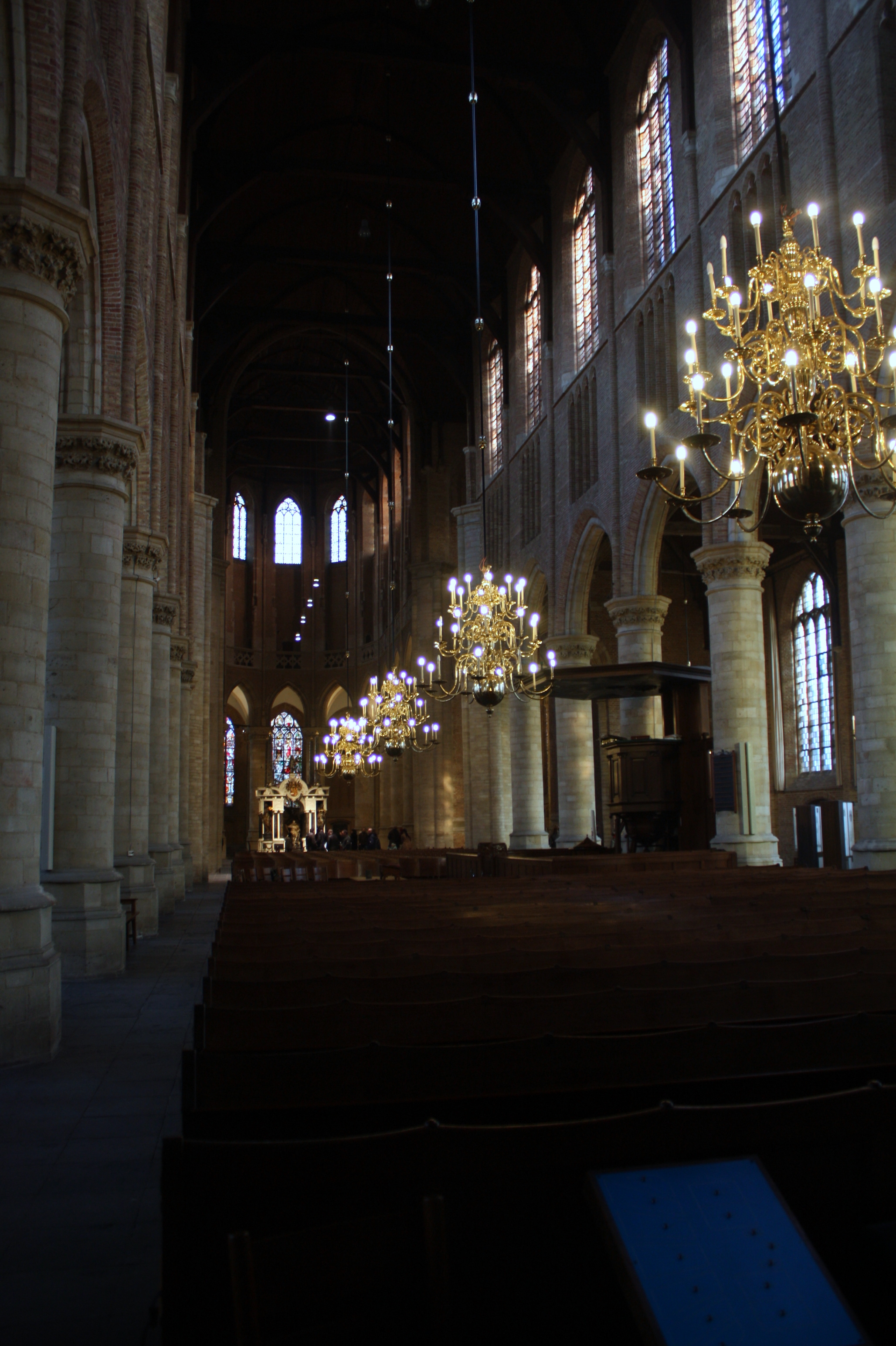 Delft, Oude Kerk (The Old Church)